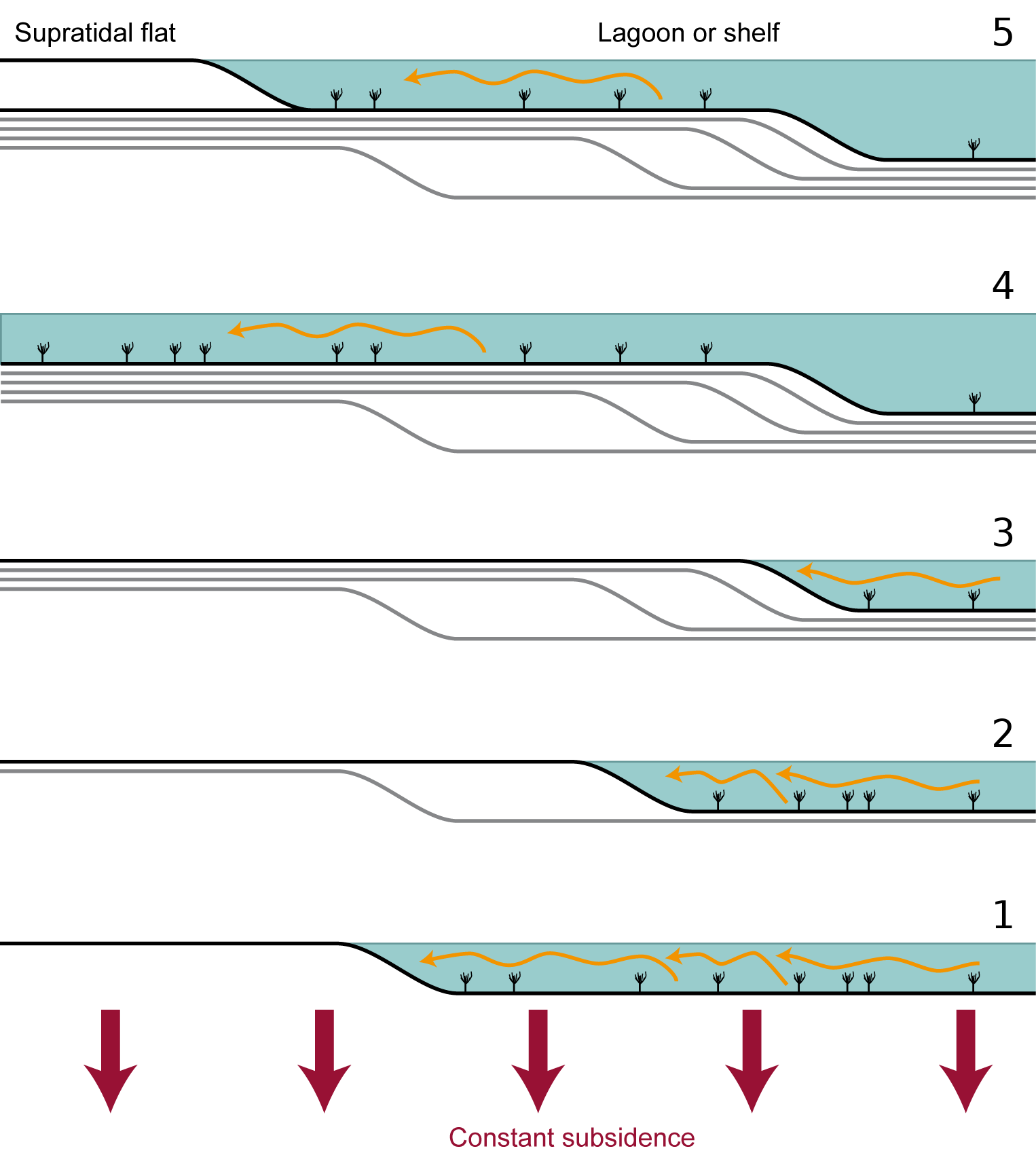 A schematic representation of the Ginsburg model for the development of peritidal sequences (autocycles) in carbonate shelves